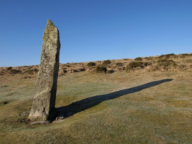 The Long Stone. Another view of 1512293, which is at the southeastern corner of a complex of ancient stone monuments on Shovel Down. Makes a good sundial.